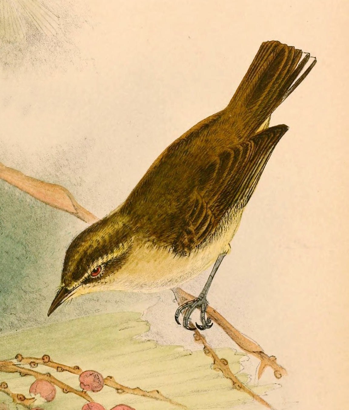 « Cryptolopha sarasinorum » = Phylloscopus sarasinorum sarasinorum (Subspecies of Sulawesi Leaf Warbler)